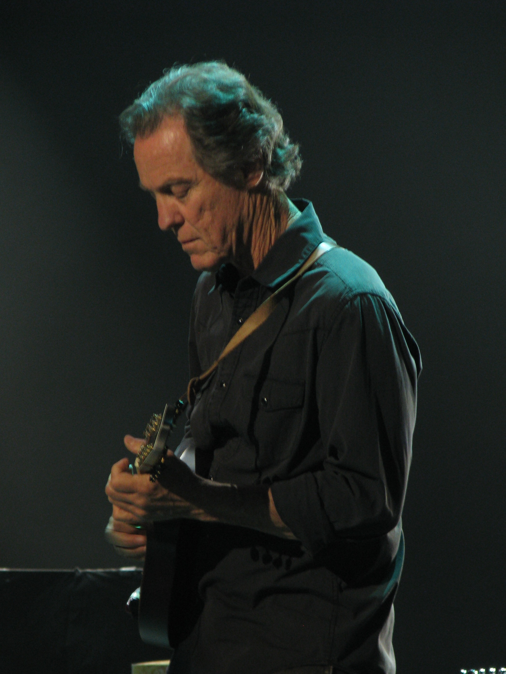 Greg Leisz playing mandolin as a member of Eric Clapton's band, Charlotte, NC, April 2, 2013